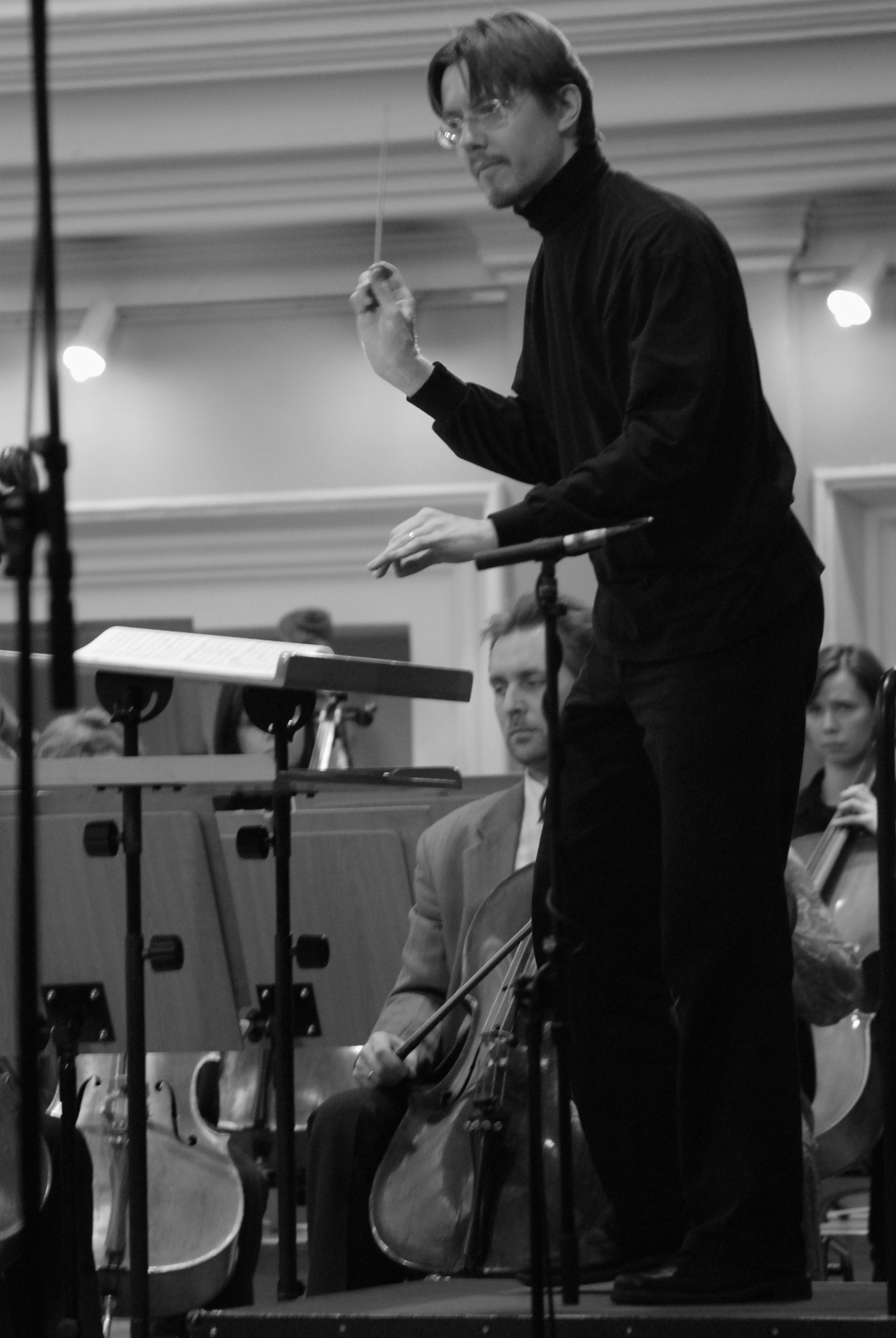 Sasha MAKILA during The 8th Grzegorz Fitelberg International Competition for Conductors in Katowice